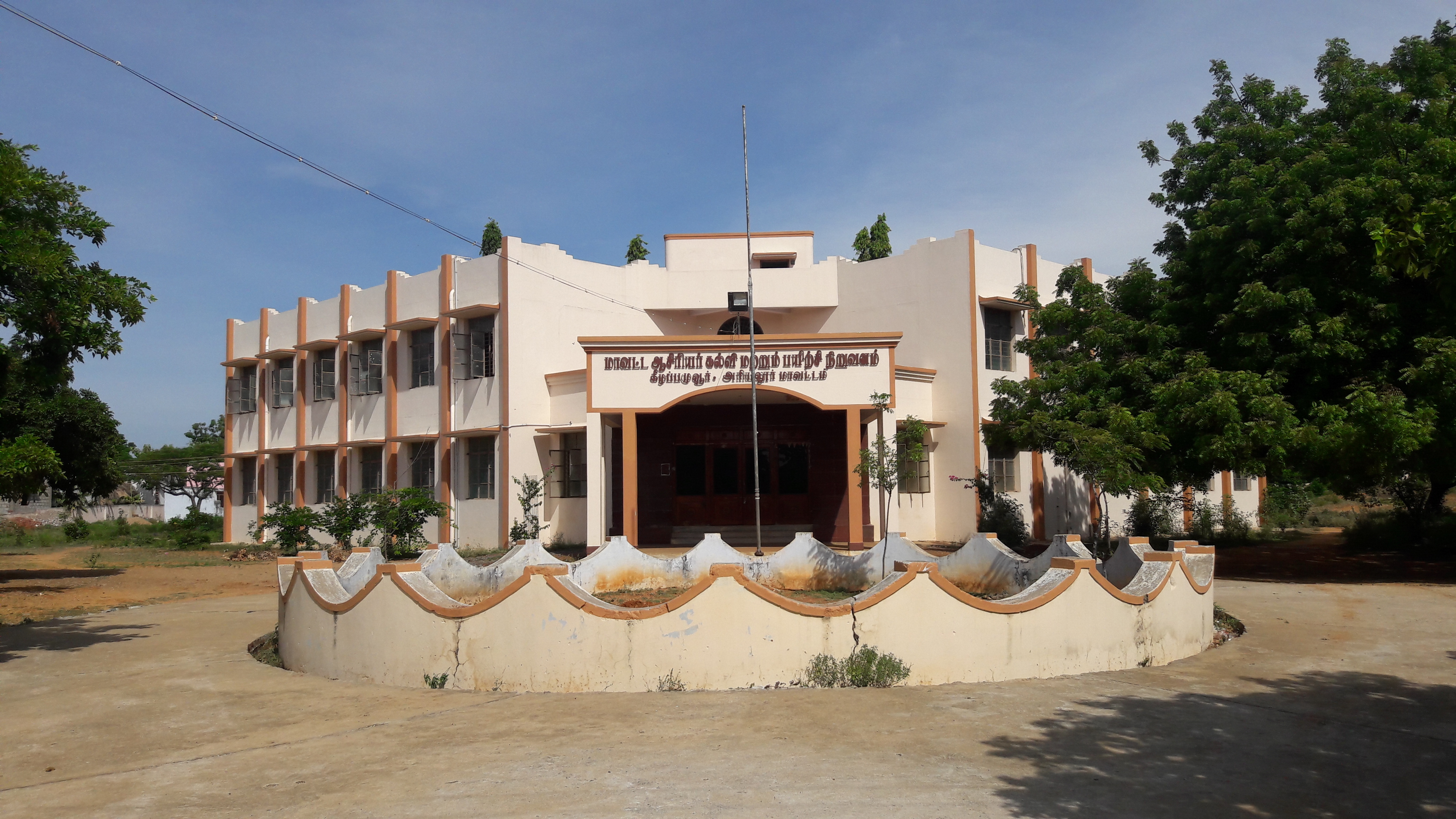 district institute of education and training ariyalur